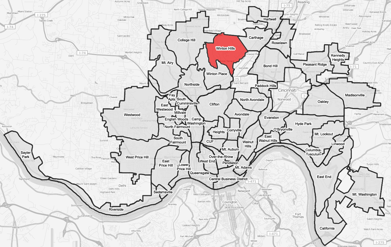 A map of the neighborhood of Winton Hills within Cincinnati, Ohio. Neighborhood lines are based on information from This street map is derived from a free map.